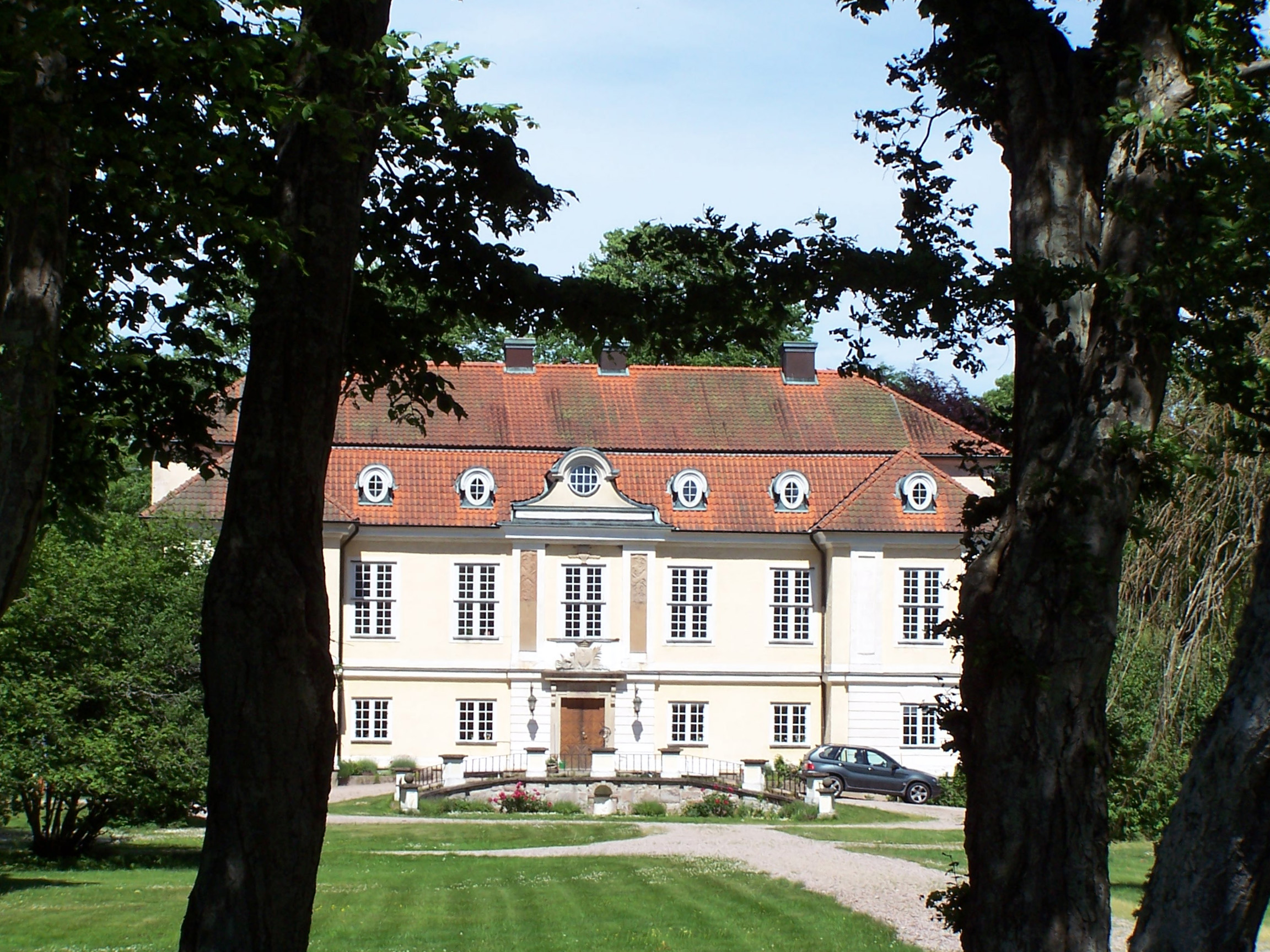 Johannishus slott (Johannishus Castle), in fact count Wachtmeister's af Johannishus country estate, not a real castle. However called "slott" by locals and on signs on the main road.